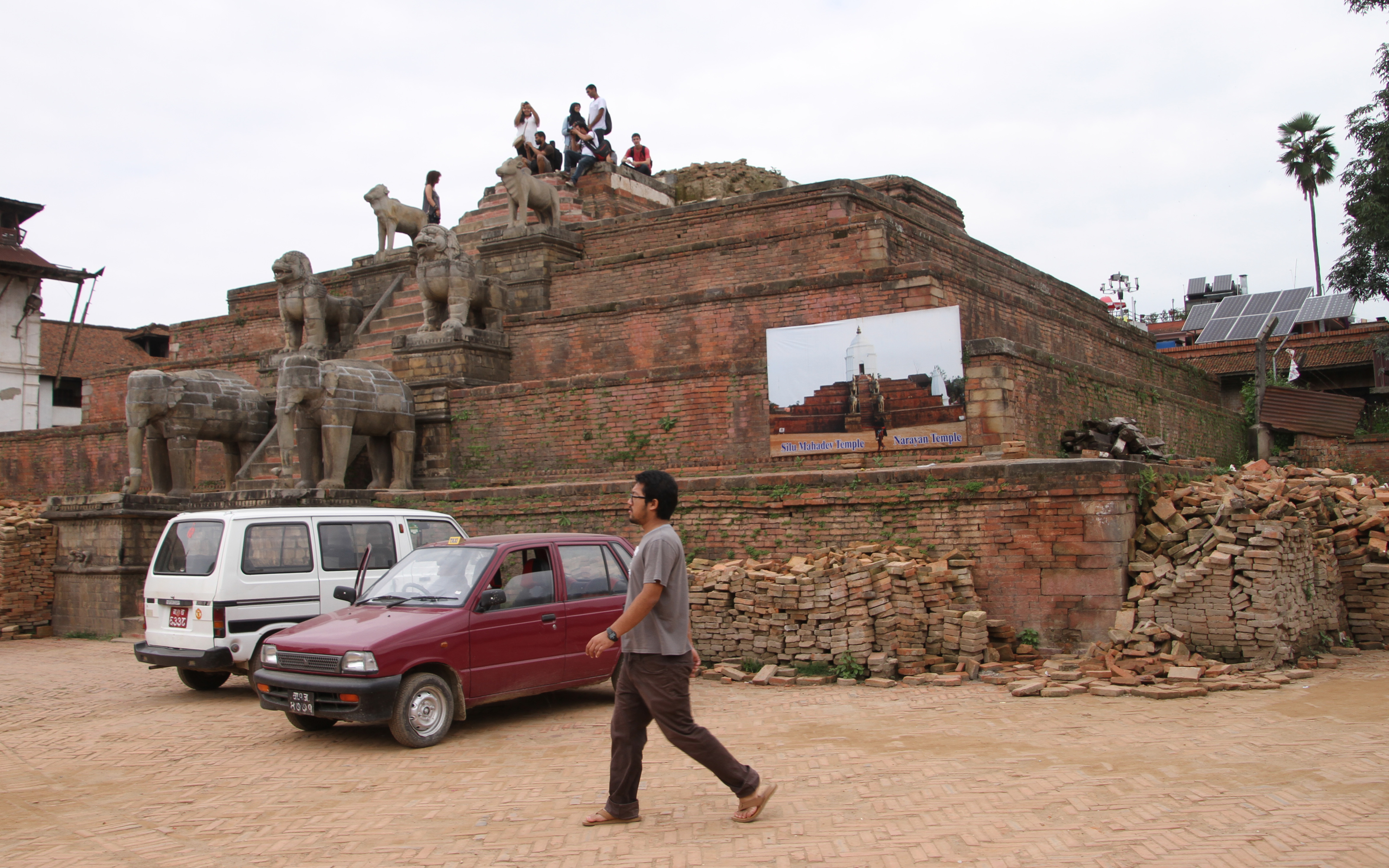 Bhaktapur Durbar Square